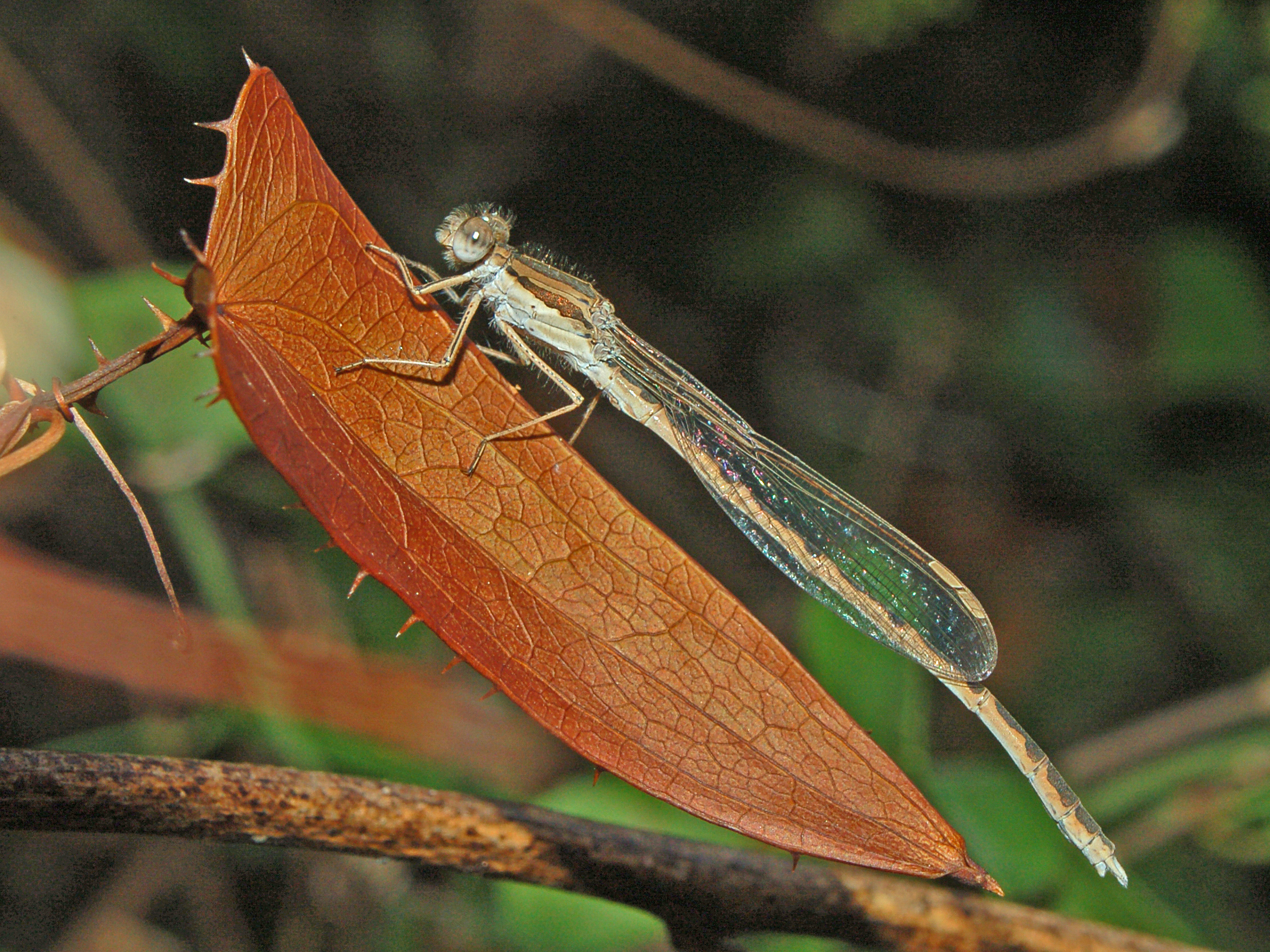 Sympecma fusca, female. Genova, Italy